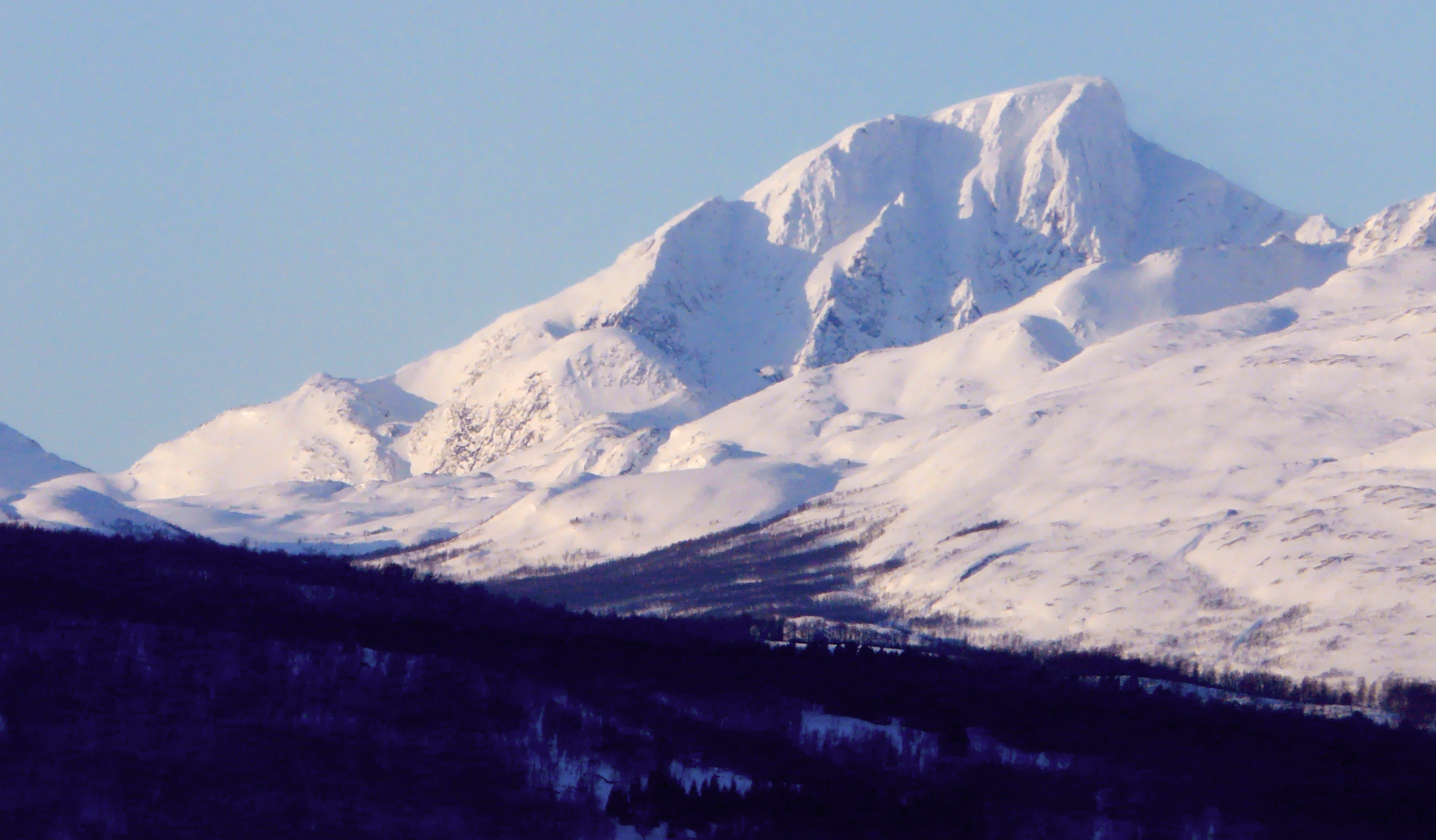 The 1,378 metres high summit of Blåtindan in Målselv commune as seen from near Storsteinnes in Balsfjord in 2009 February.